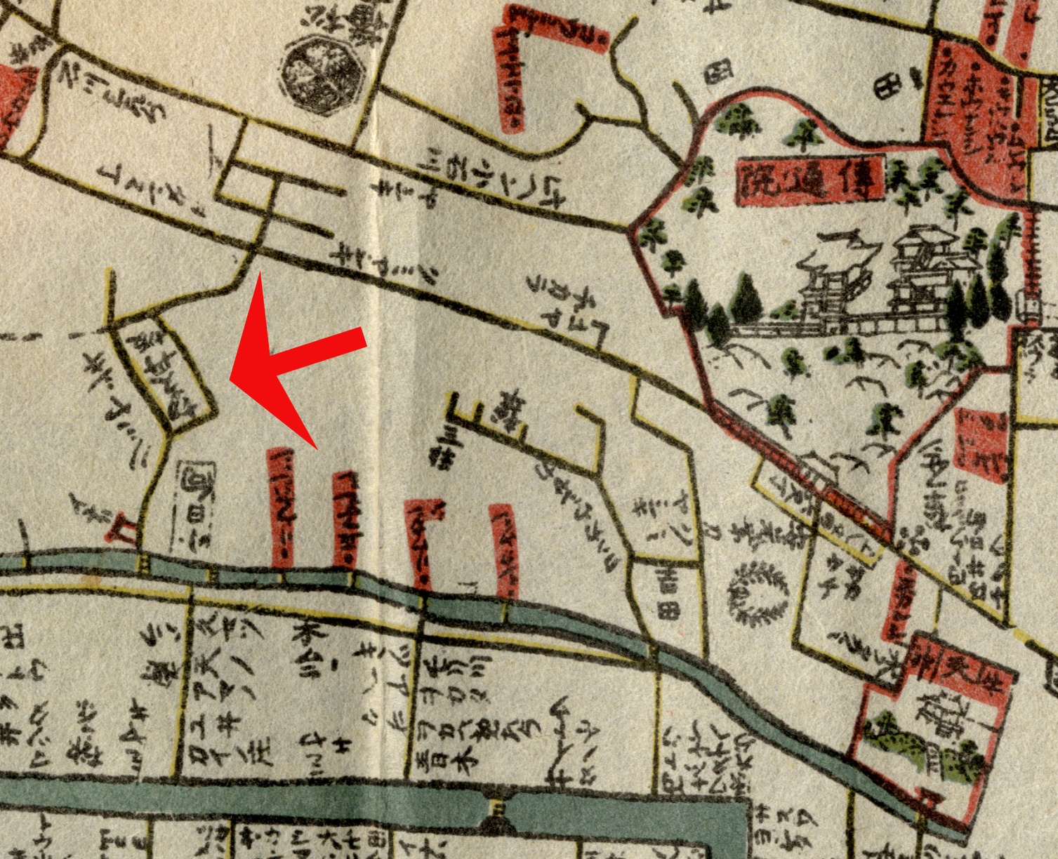 Location of the "Christian Enclosure" (Kirishitan yashiki) in Edo on a map from 1771 (Meiwa 8, Suharaya Mohē)